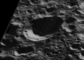 Oblique view of Leonov crater, facing west